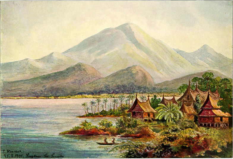 One of the prints from Ernst Haeckel's 1905 Wanderbilder (Travel Pictures), Lake Singkarak.